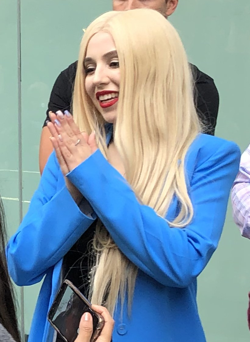 US pop singer Ava Max meeting fans in Sydney, Australia.